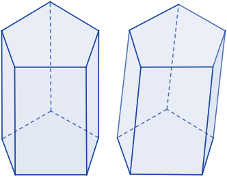 The lateral edges of the right prism form a right angle with the base.